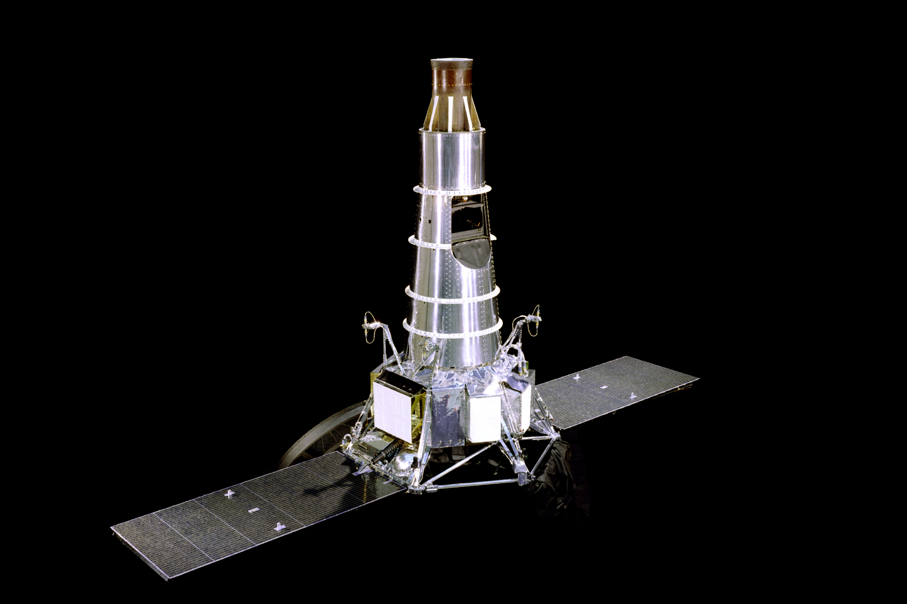 The Ranger fleet of spacecraft launched in the mid-sixties provided for thefirst time live television transmissions of the Moon from lunar orbit.These transmissions resolved surface features as small as 10 inches across and provided over 17,000 images of the lunar surface. These detailed photographs allowed scientists and engineers to study the Moon in greater detail than ever before thus allowing for the design of a spacecraft that would one day land men of Earth on its surface.